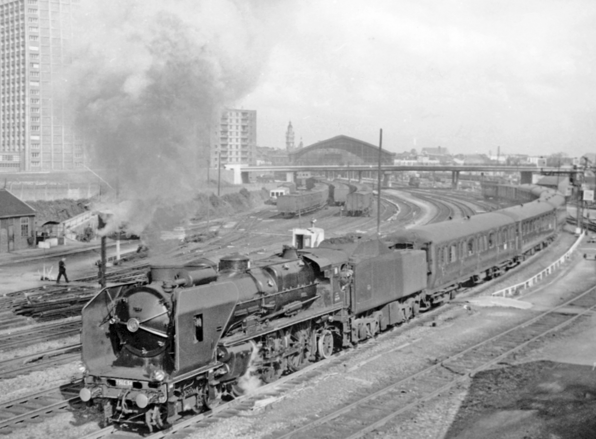 Lille Fives, 1957: Nord class 231E leaving on a westbound express.